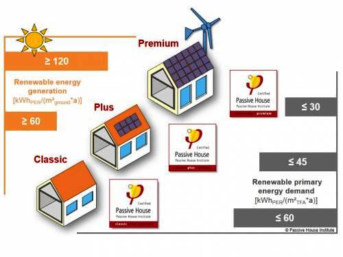 Нові класи стандарту Пасивного Будинку, ввелені РНІ починаючи з 2015 року.